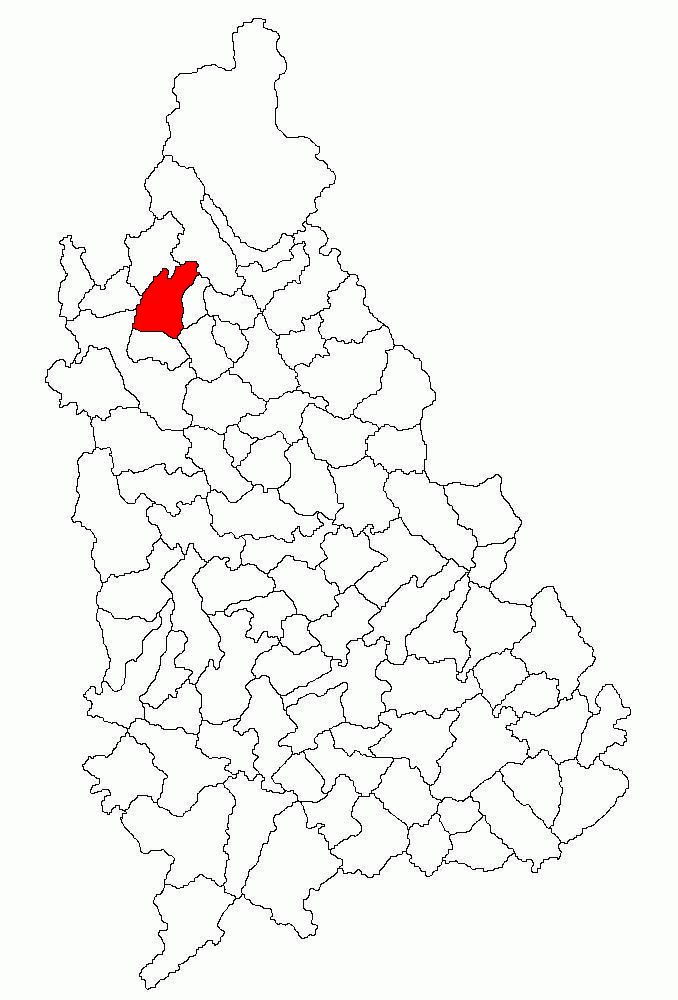 Location map of Barbuletu Commune in Dambovita County, Romania